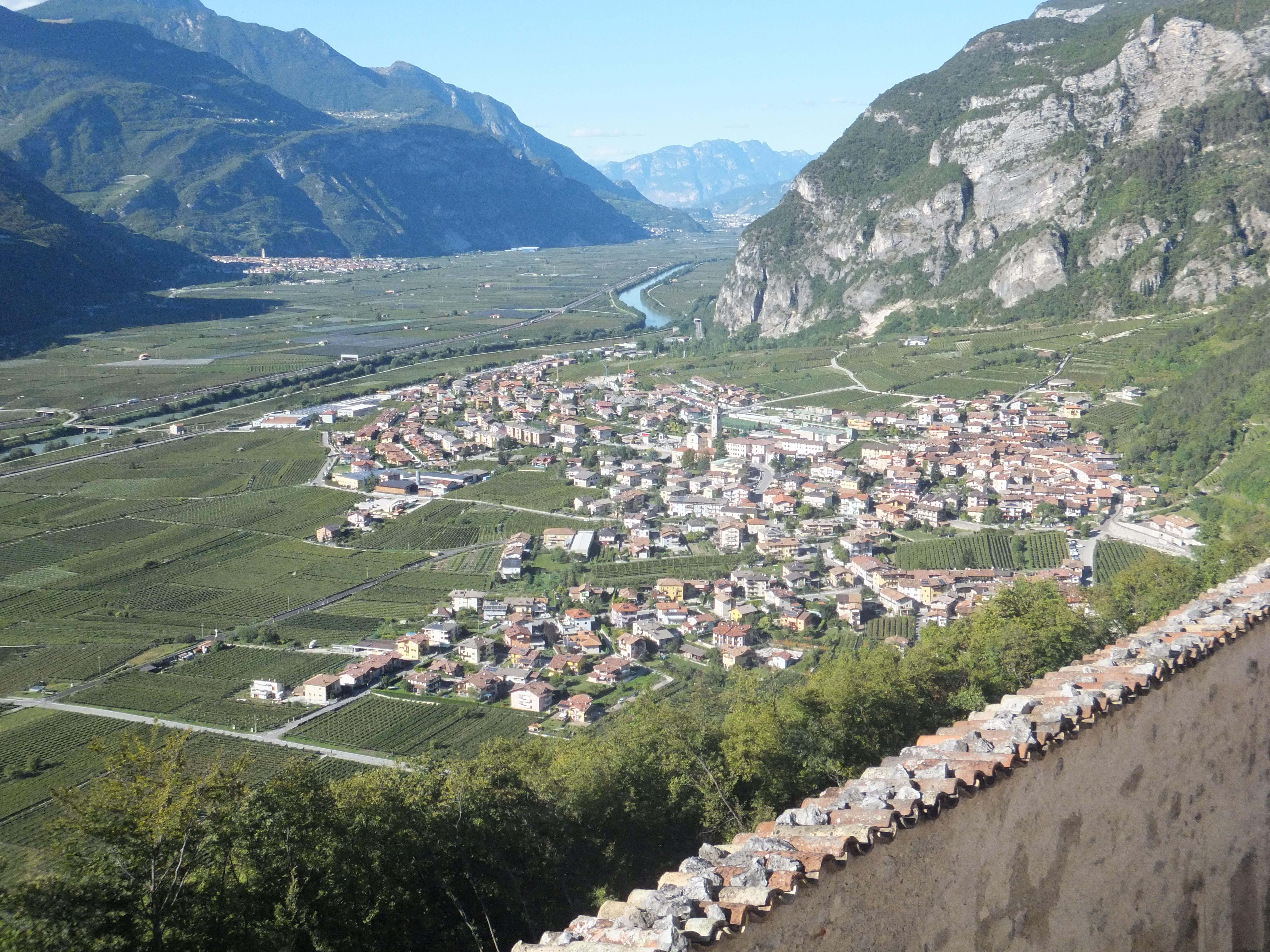 The town of Besenello seen from the castle of Beseno